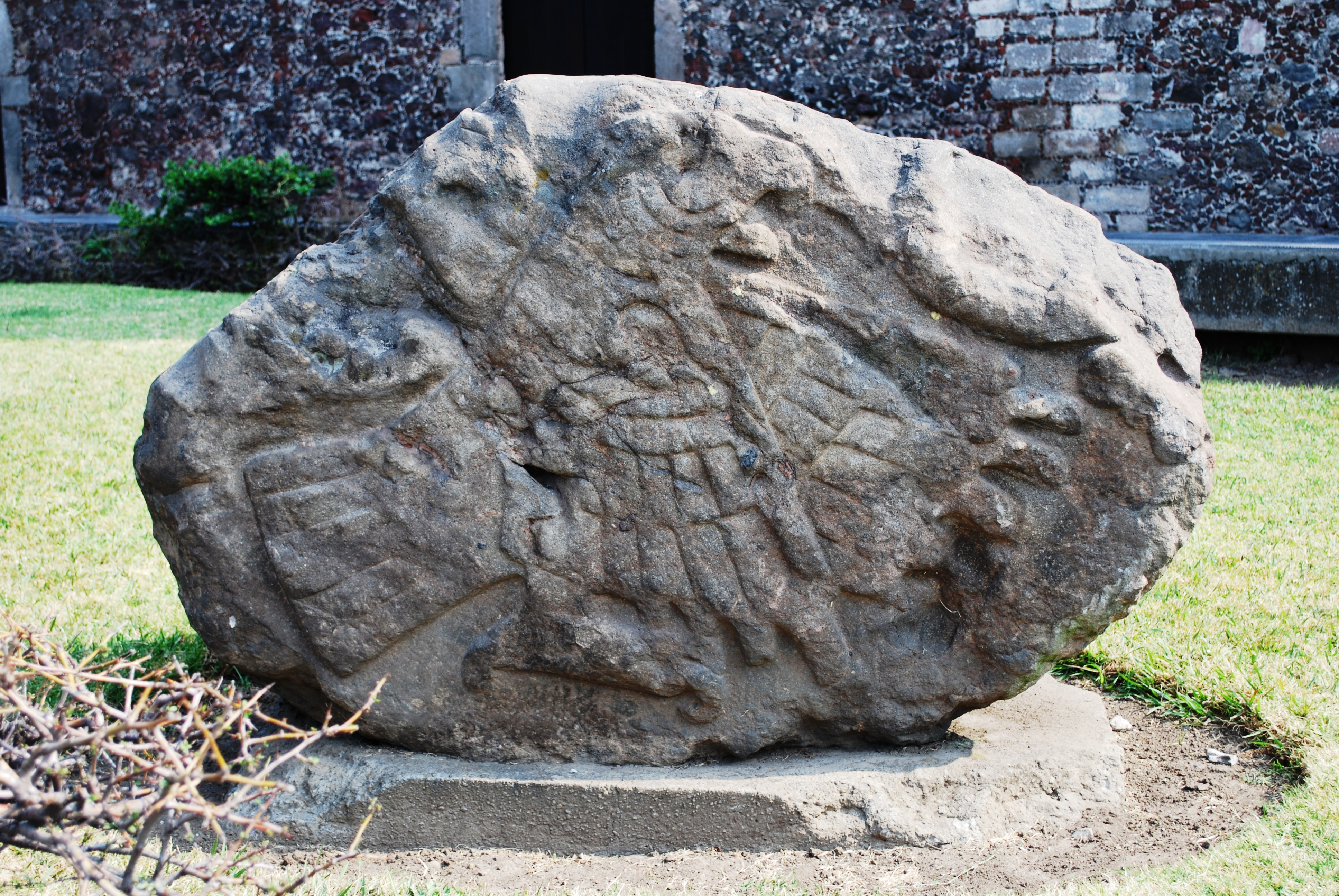 Stone with pre-Hispanic carving of a bird of prey in front of the Palacio de Cortes in Cuernavaca, Mexico